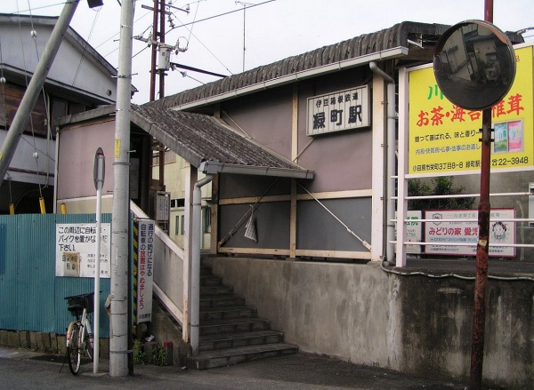 Midorichō Station, on the Izuhakone Daiyūzan Line, Odawara, Kanagawa 緑町駅